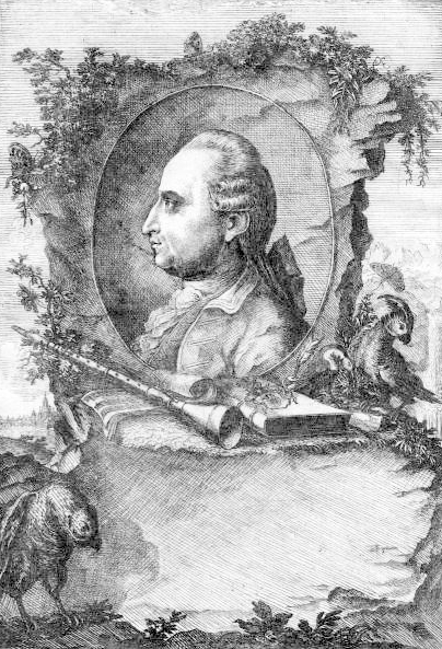 Estonian / German / Russian clarinetist and clarinet maker Iwan Müller (1786-1854).